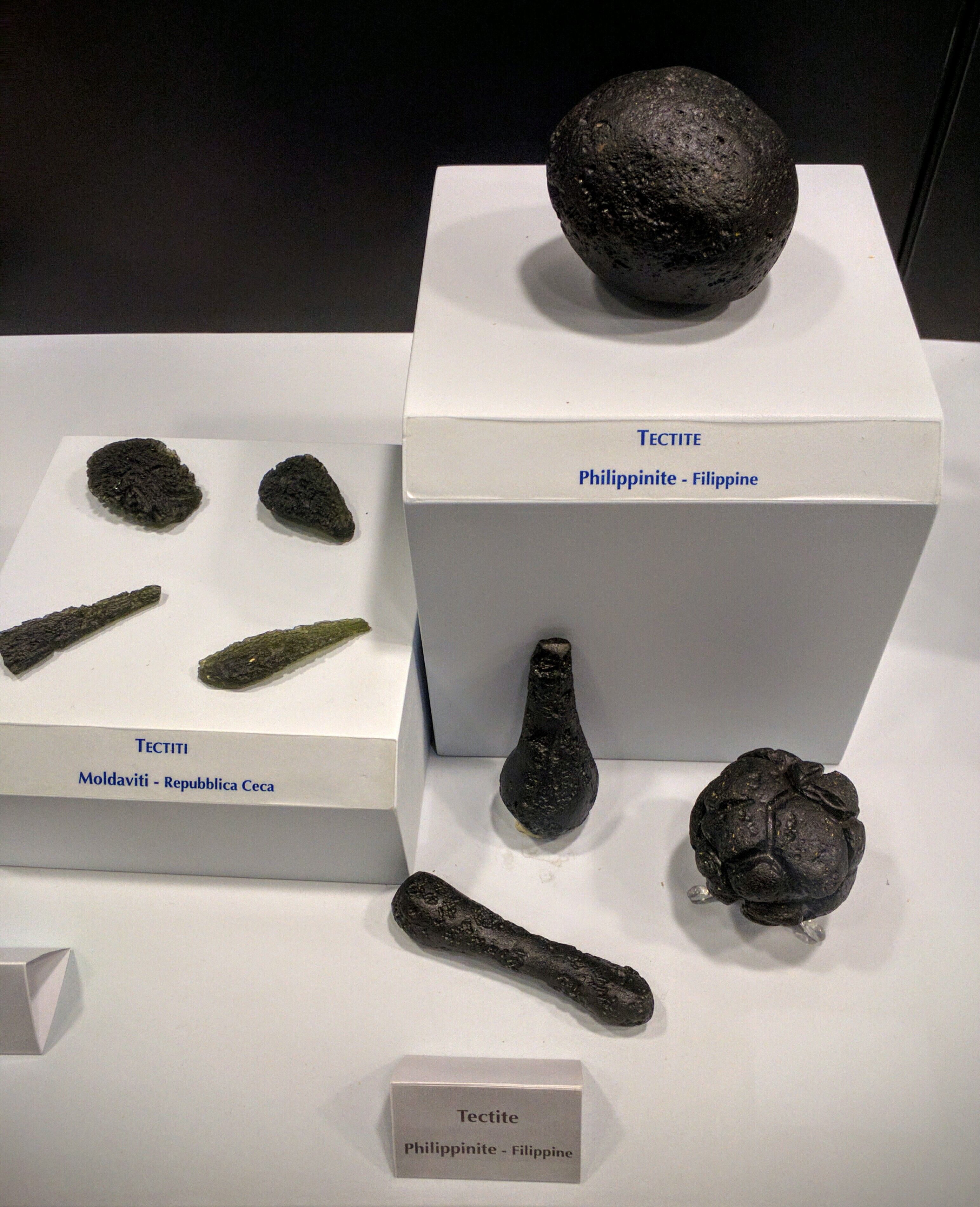 tectiti